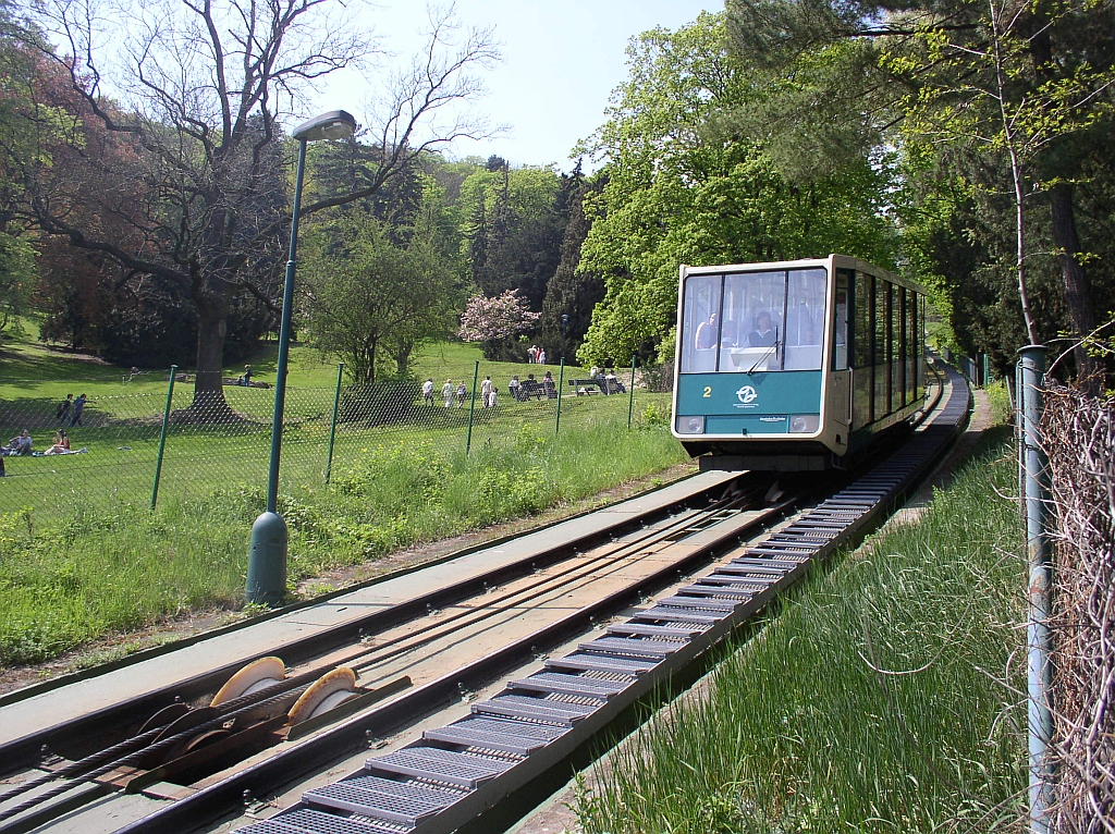 Rail cableway of Petřín in Prague